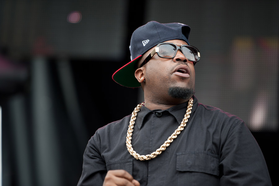 Big Boi @ CounterPoint Festival in Fairburn, GA on September 29, 2012. This photo is licensed under a Creative Commons license. If you use this photo within the terms of the license or make special arrangements to use the photo, please list the photo credit as "Mark Runyon | " and link the text to .